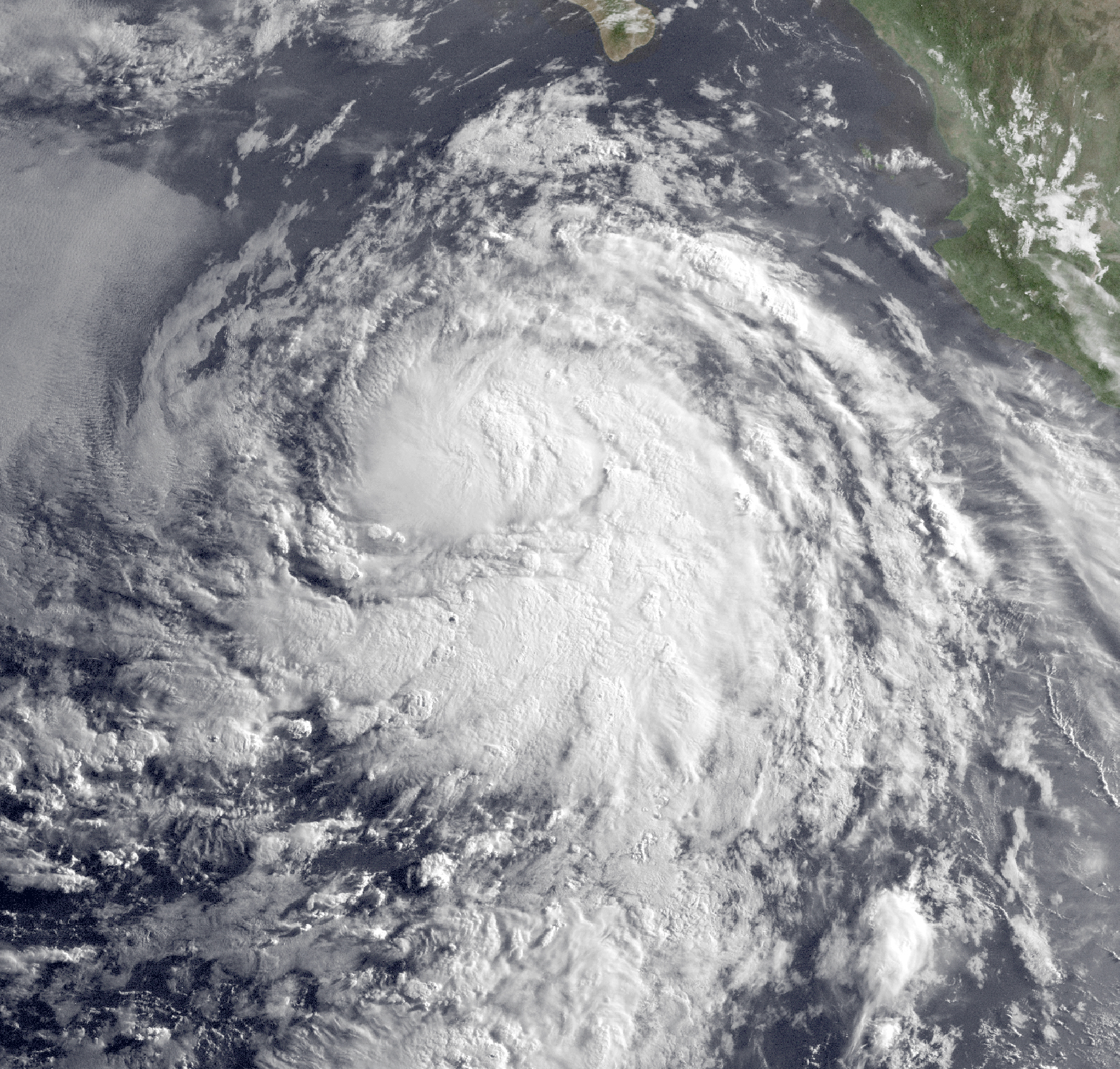 Tropical Storm Blanca of 2009 just after being named.